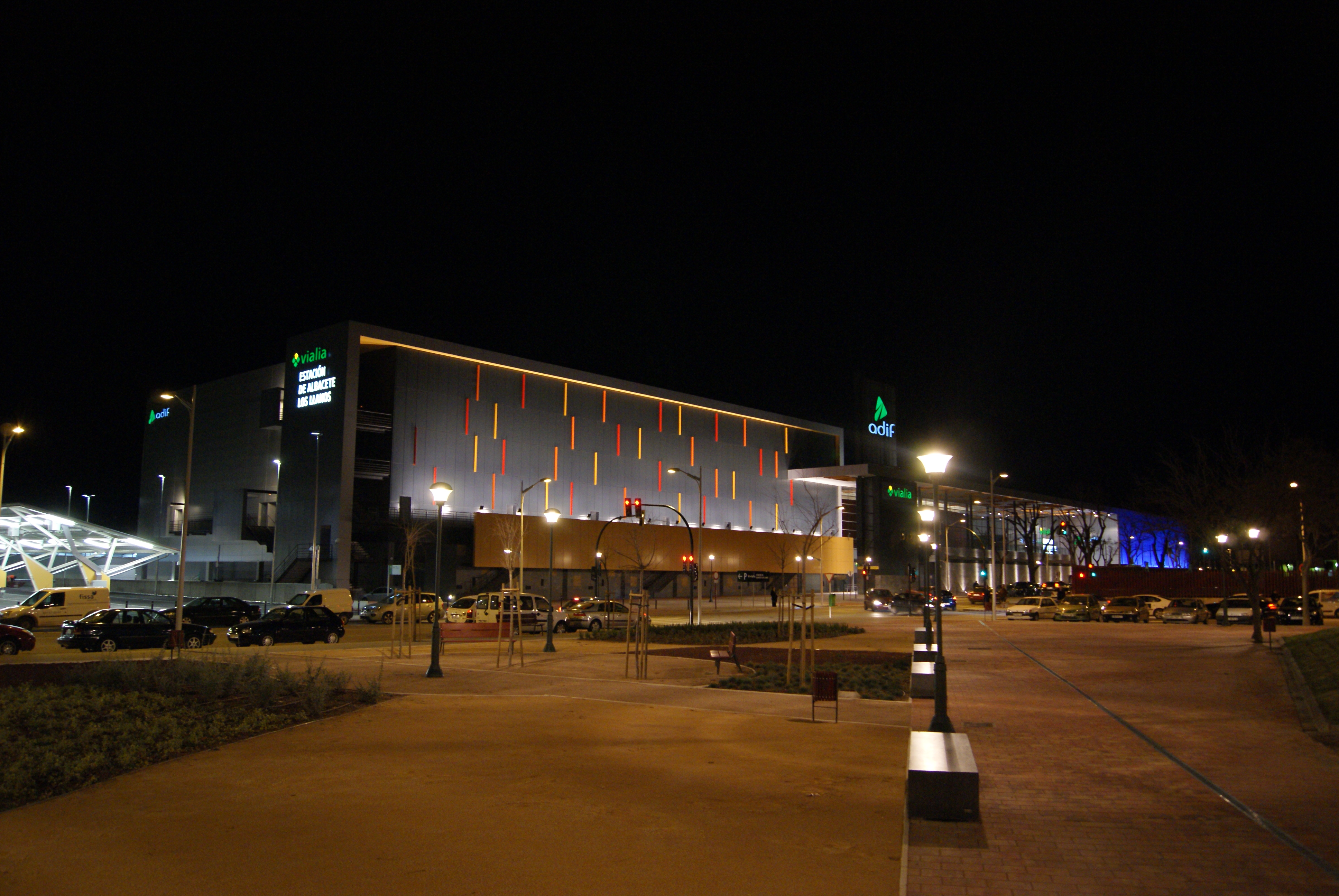 General outside view of Vialia Estación de Albacete Los Llanos